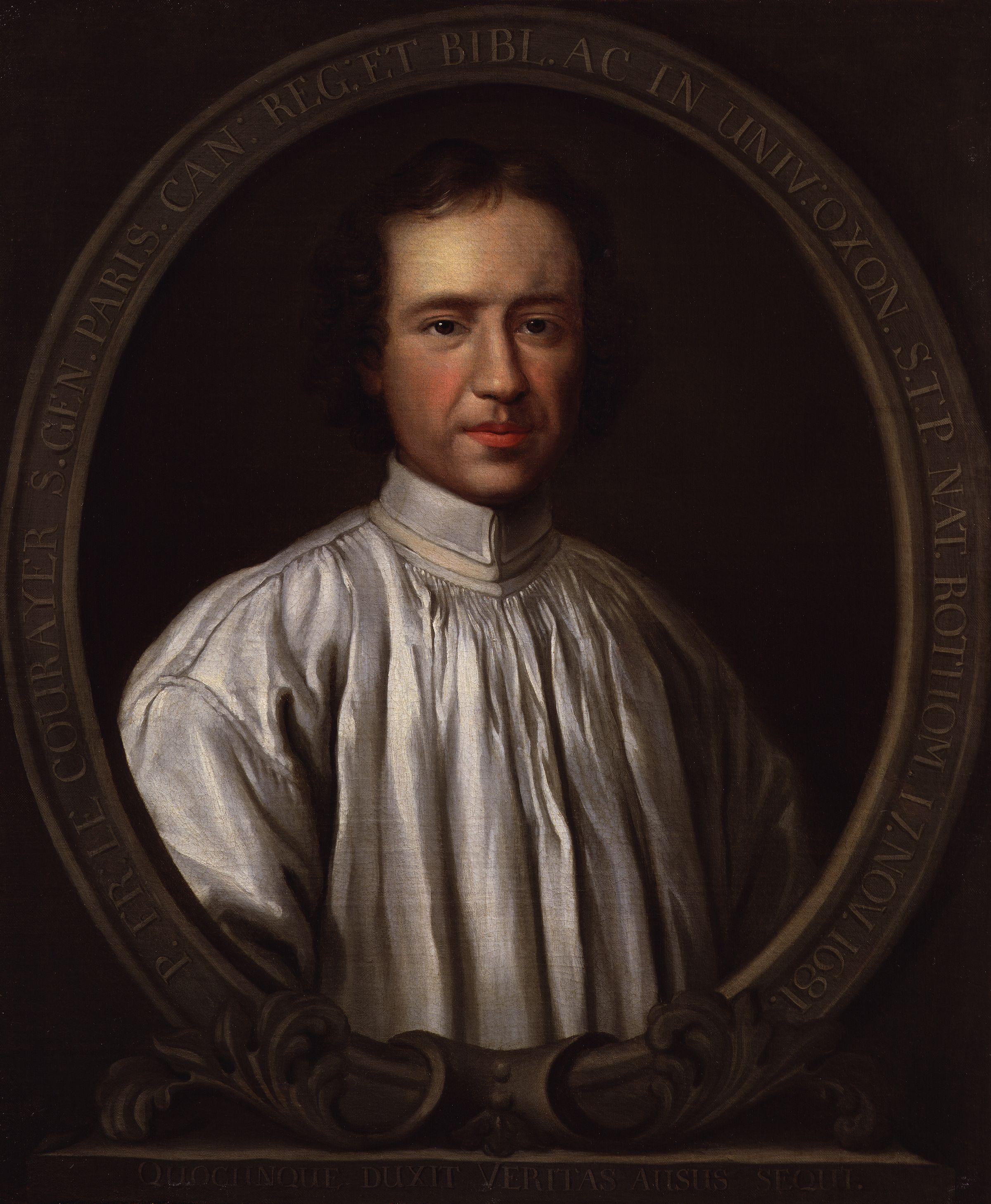 Pierre François Le Courayer. Purchased by NPG in 1978. See source website for more information. All images in this batch have an unknown author, but there is strong evidence it was first published before 1923 (based mainly on the NPG's estimated date of the work).